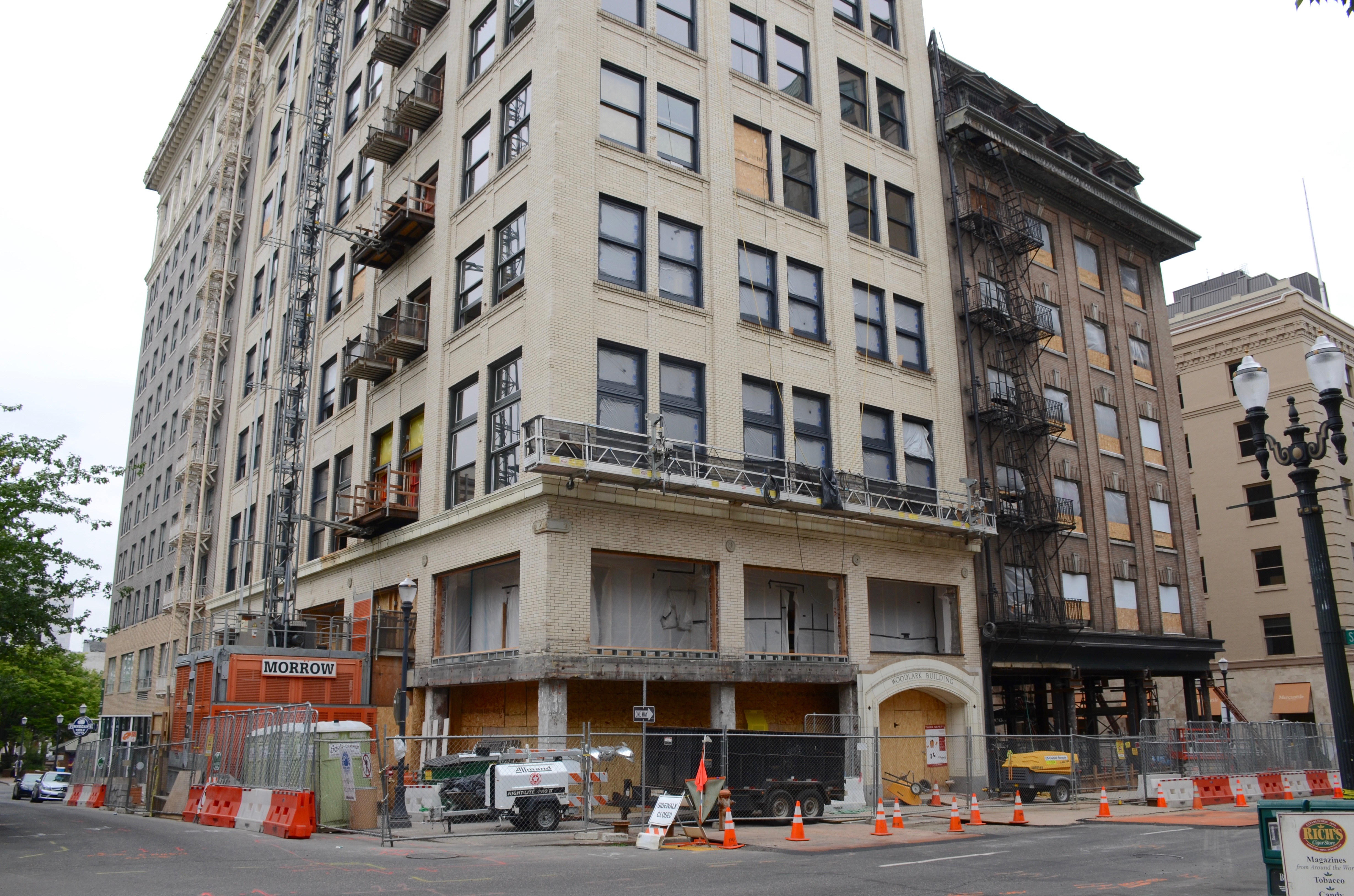 The Woodlark Building and the former Cornelius Hotel building, in downtown Portland, Oregon, during extensive renovation work in 2017 to connect them and outfit them as a new hotel, to be named "The Woodlark". Both buildings are listed on the U.S. National Register of Historic Places. This view is from the southwest.